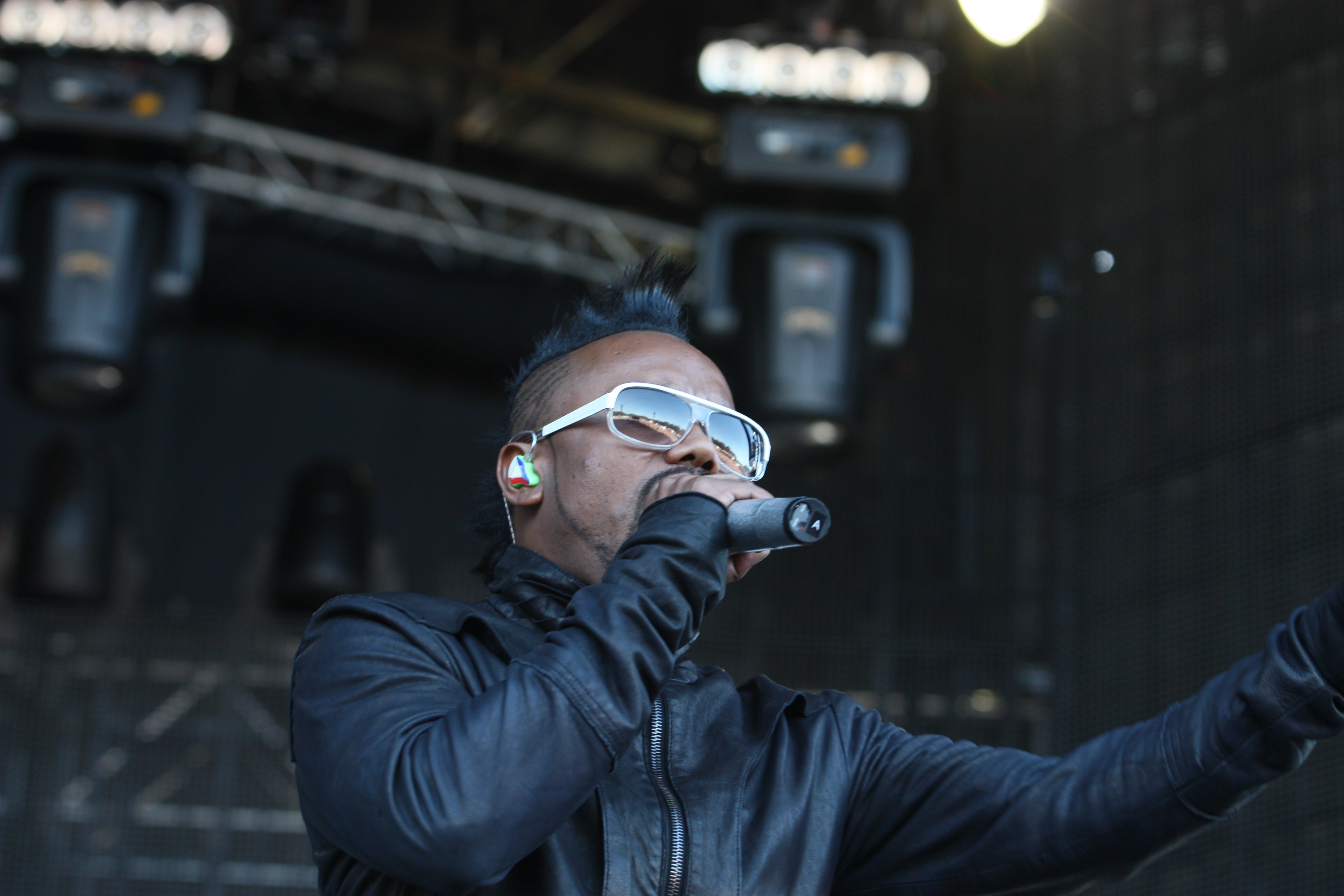 apl.de.ap performing with Black Eyed Peas at Outside Lands 2009